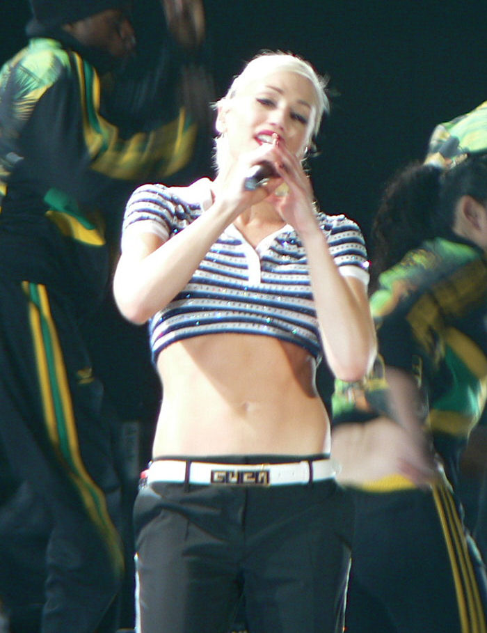 Gwen Stefani performing "Now That You Got It" at the Cynthia Woods Mitchell Pavilion in Houston, Texas, United Statesgwen's abs